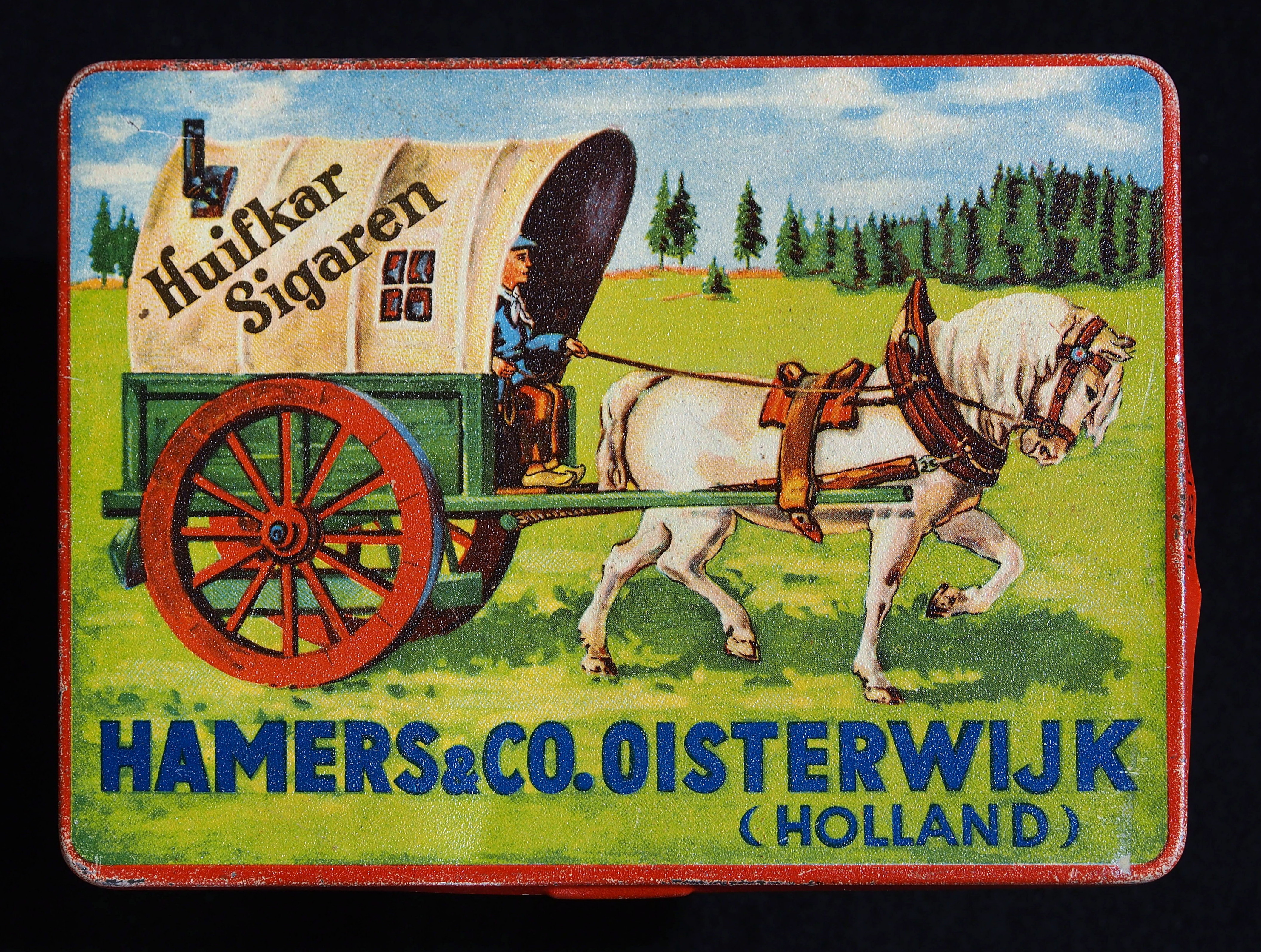 Very old packaging of a Dutch product that is not produced and/or not sold any more.